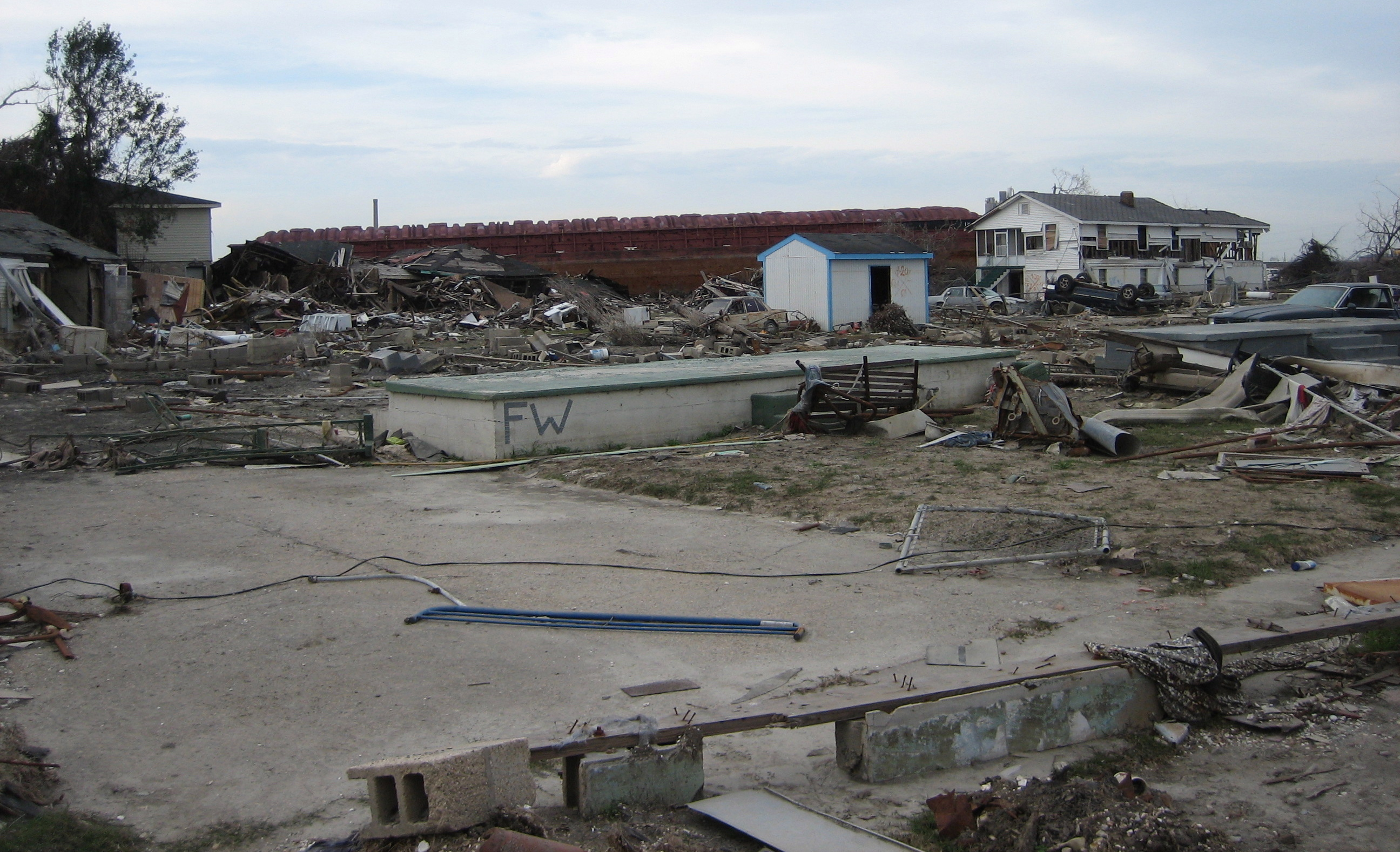 Hurricane Katrina aftermath in New Orleans: Devastated residential area, Lower 9th Ward, with barge that landed in neighborhood after coming through breach in Industrial Canal visible in background.